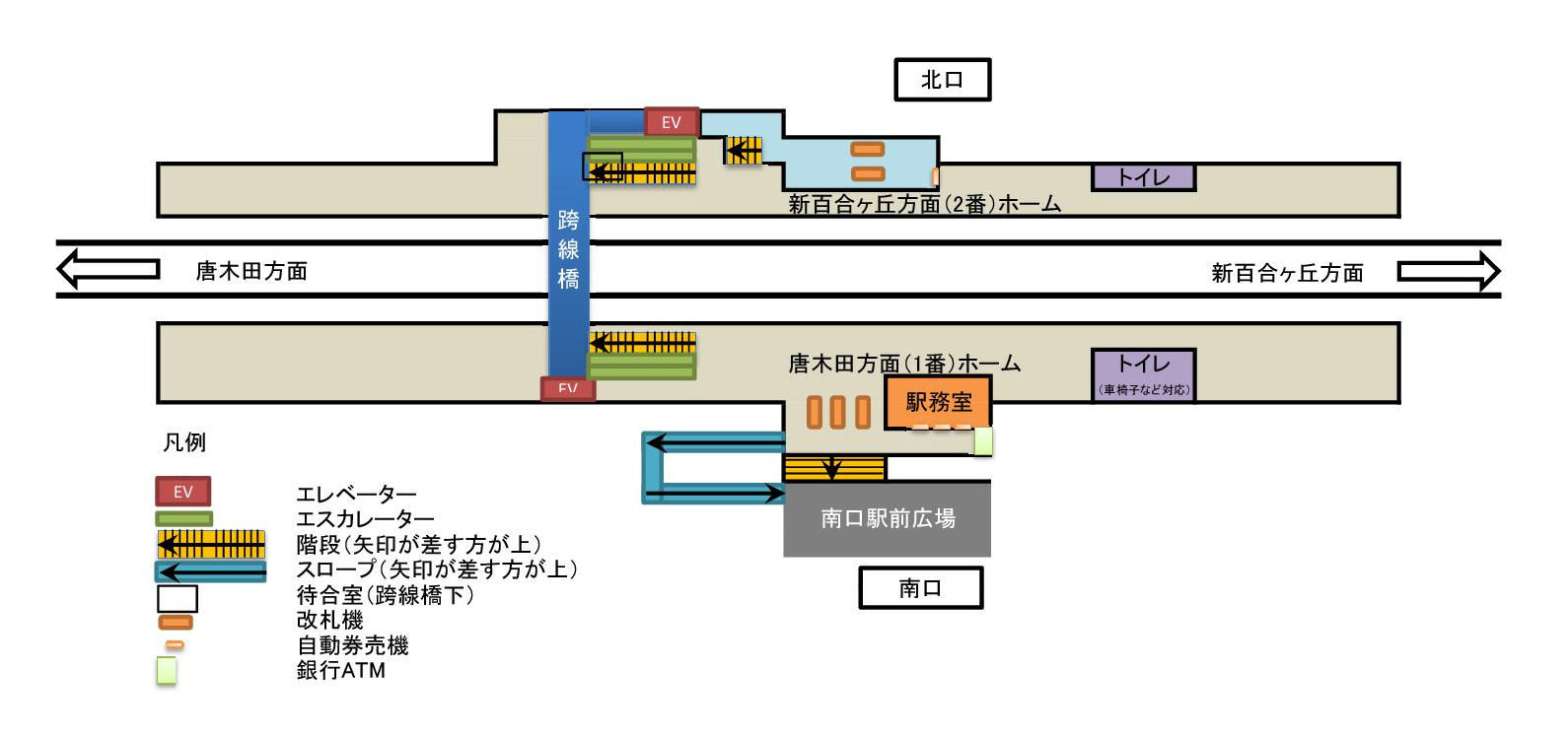 Haruhino statiion map(Japanese)